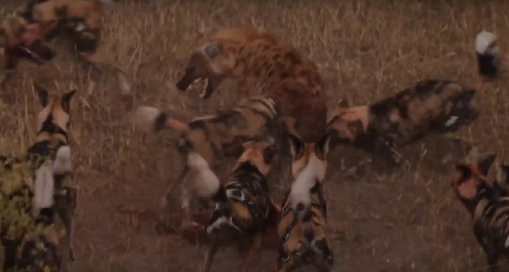 African wild dogs defending their kill from spotted hyenas in Kruger National Park